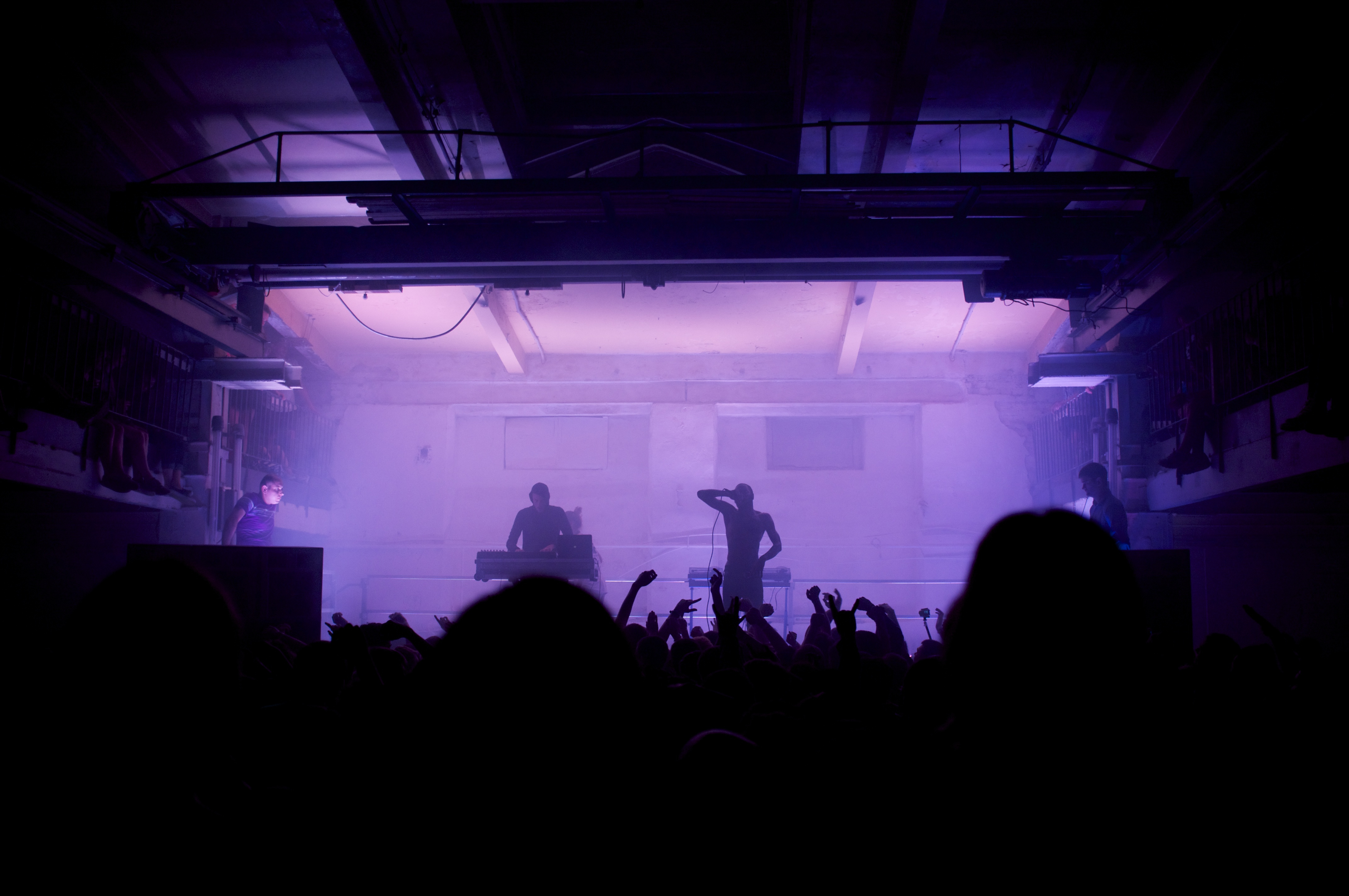 Moscow, 16 May 2013